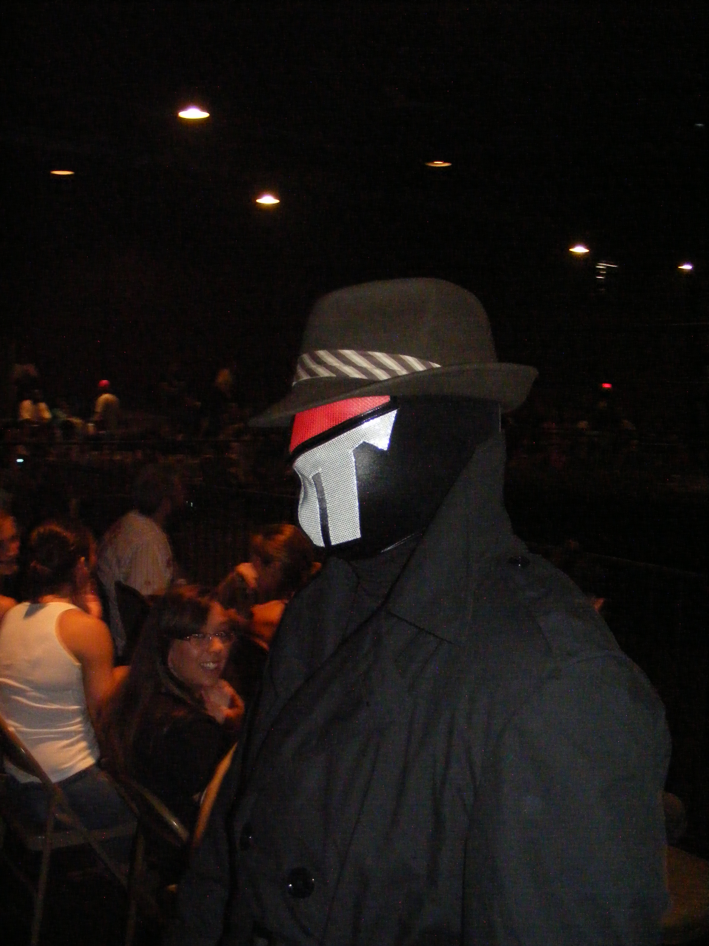 Professional wrestler Tim Donst disguised as Vökoder at a Chikara show